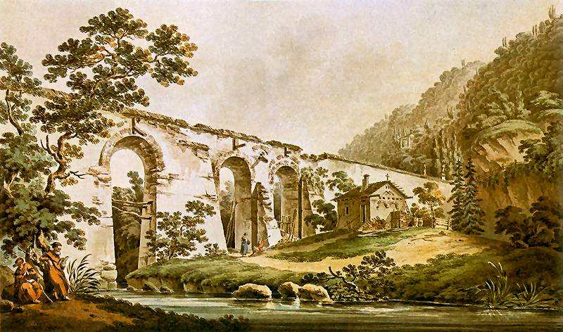 Zygmunt Vogel, View of Devil's Bridge, 1787, 38,9 x 59,8 cm.